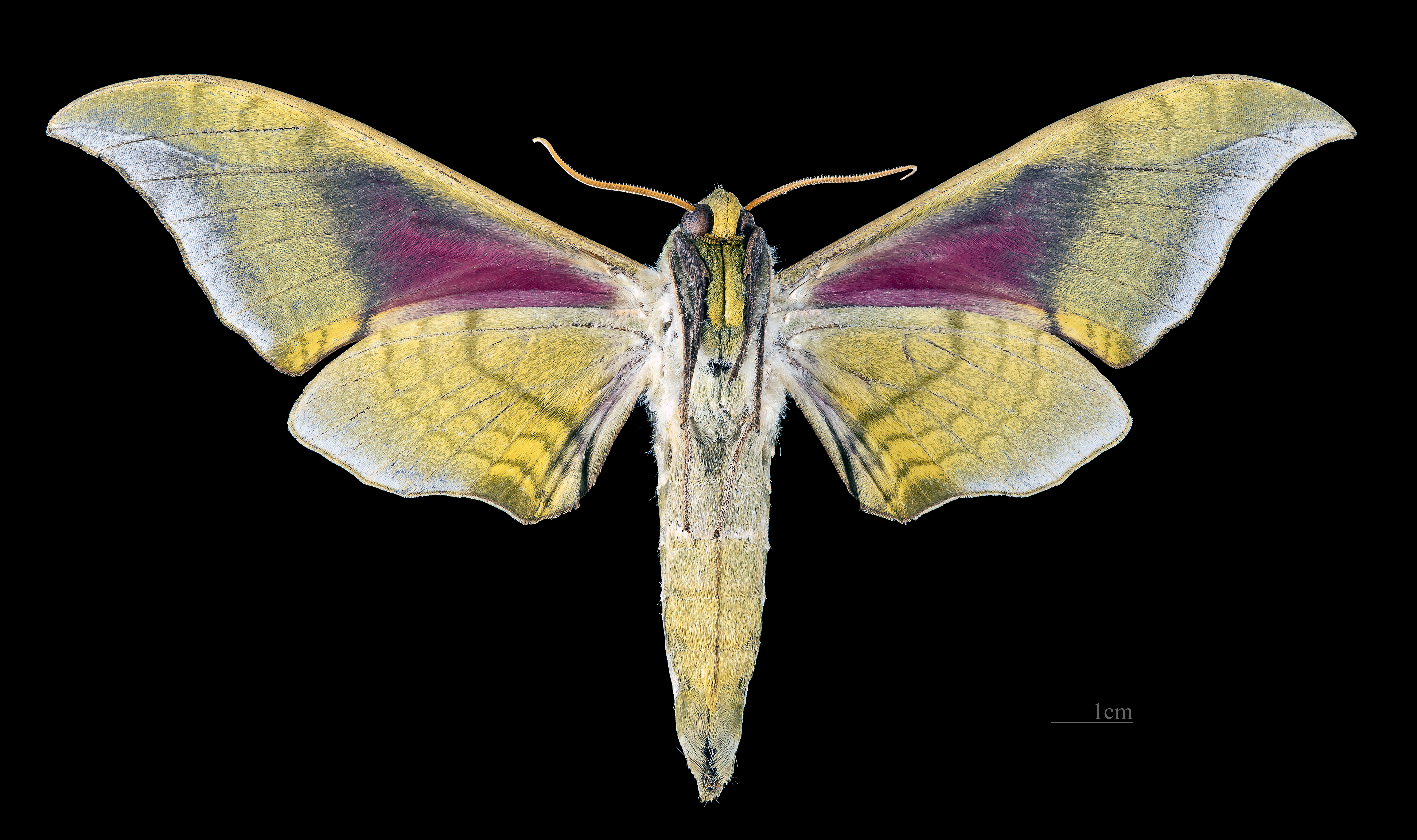 Callambulyx poecilus -△ Ventral side Collection of the Mathematician Laurent Schwartz